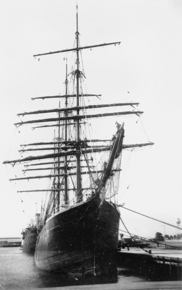 Omega (ship) At Calais, 1949. Ex. Drumcliff. (Information supplied with photograph).